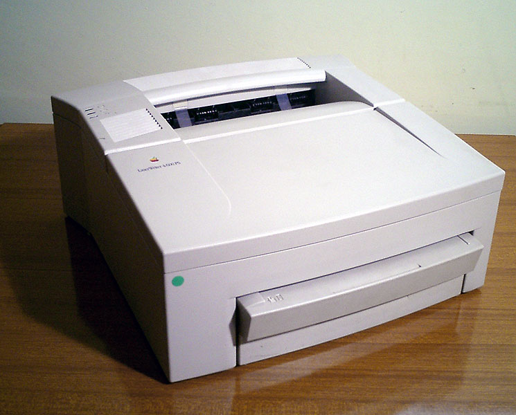 Apple LaserWriter 4-600 PS